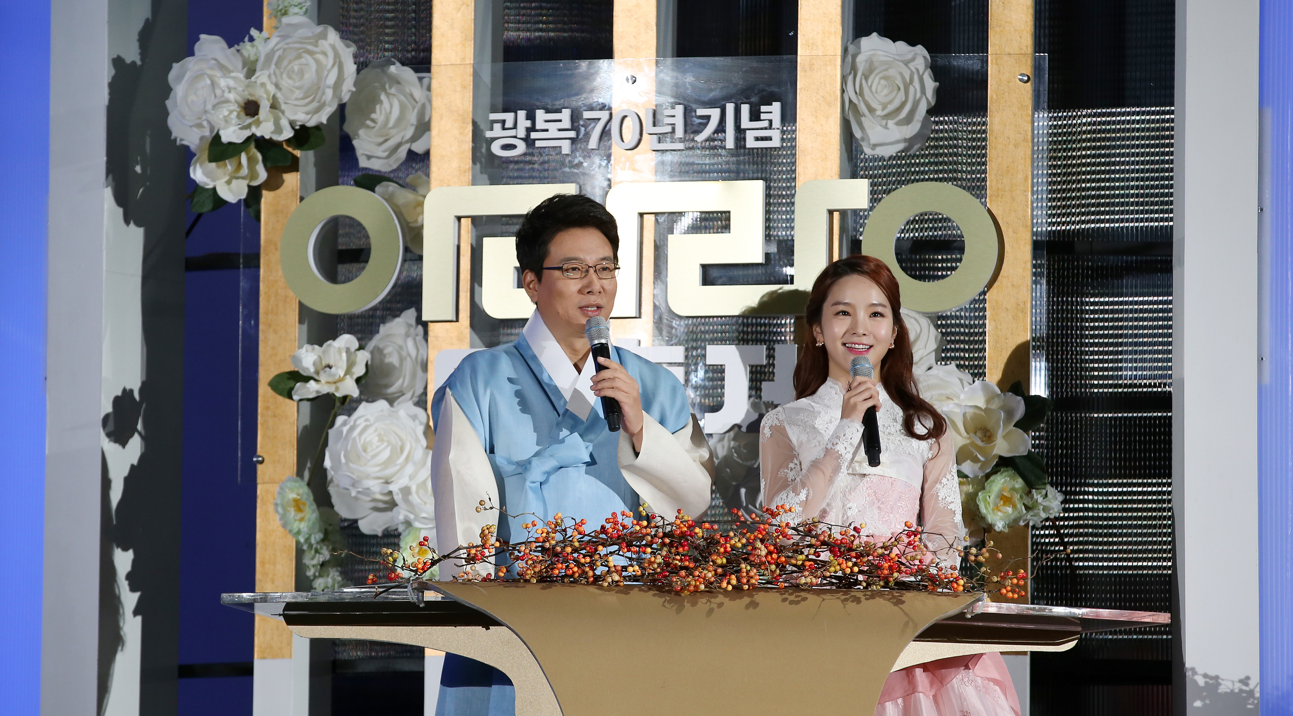 Arirang Festival October 5, 2015 Gyeongbok-gung Palace, Jongno-gu, Seoul Ministry of Culture, Sports and Tourism Korean Culture and Information Service ( Official Photographer : Jeon Han The photograph may not be used in any type of commercial, advertisement, product or promotion that in any way suggests approval or endorsement from the government of the Republic of Korea.